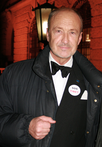 Miguel Herz-Kestranek at the Romy TV awards (Hofburg Imperial Palace in Vienna)